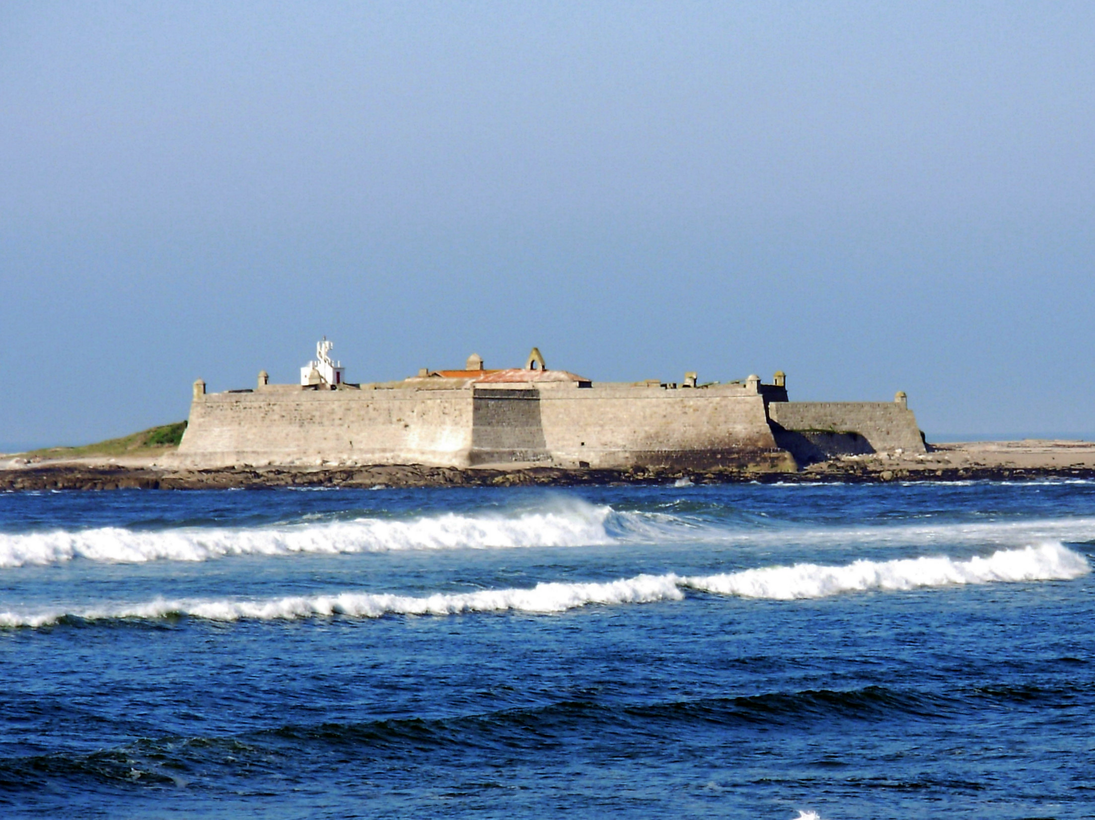 Ínsua Fort, Minho river mouth, Caminha, Portugal